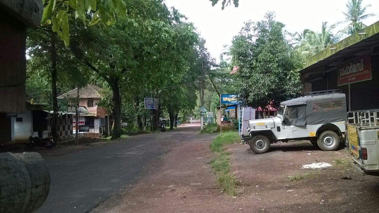 olayambadi